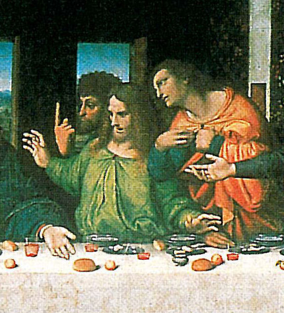 copy of Leonardo da Vinci's Last supper by an unknown 16th century artist